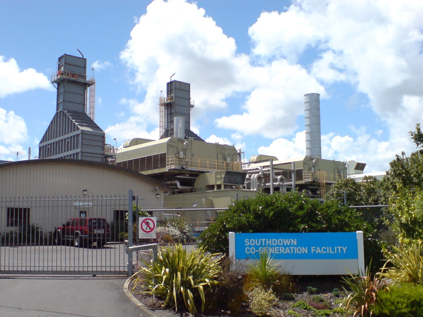 A Mighty River Power cogeneration plant in the Southdown industrial suburb of Auckland, New Zealand.